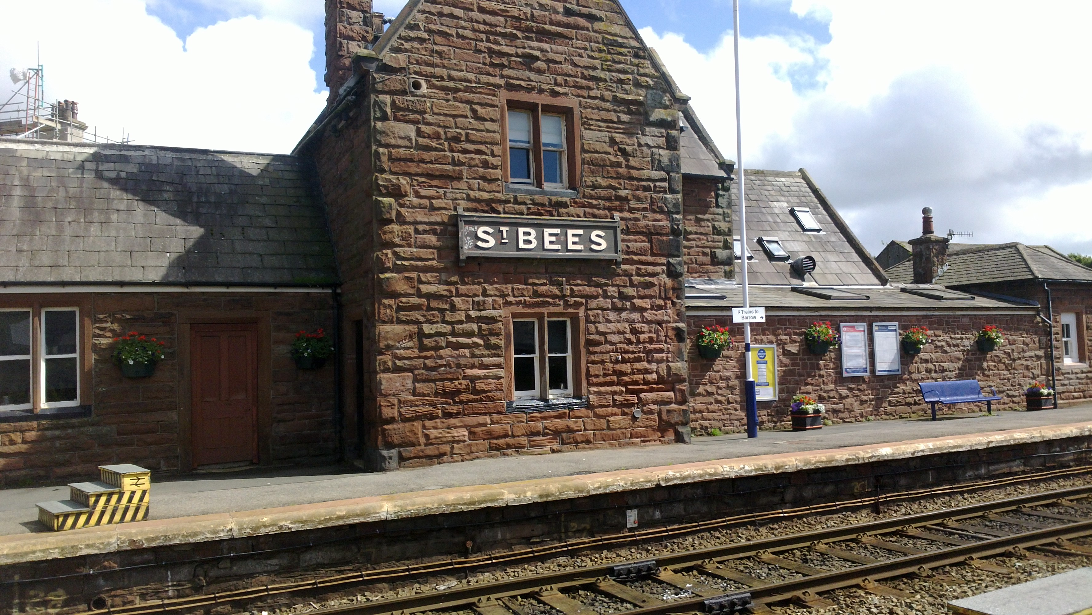 Platform and building of St Bees railway station, Cumbria, England. Includes "St Bees" sign.